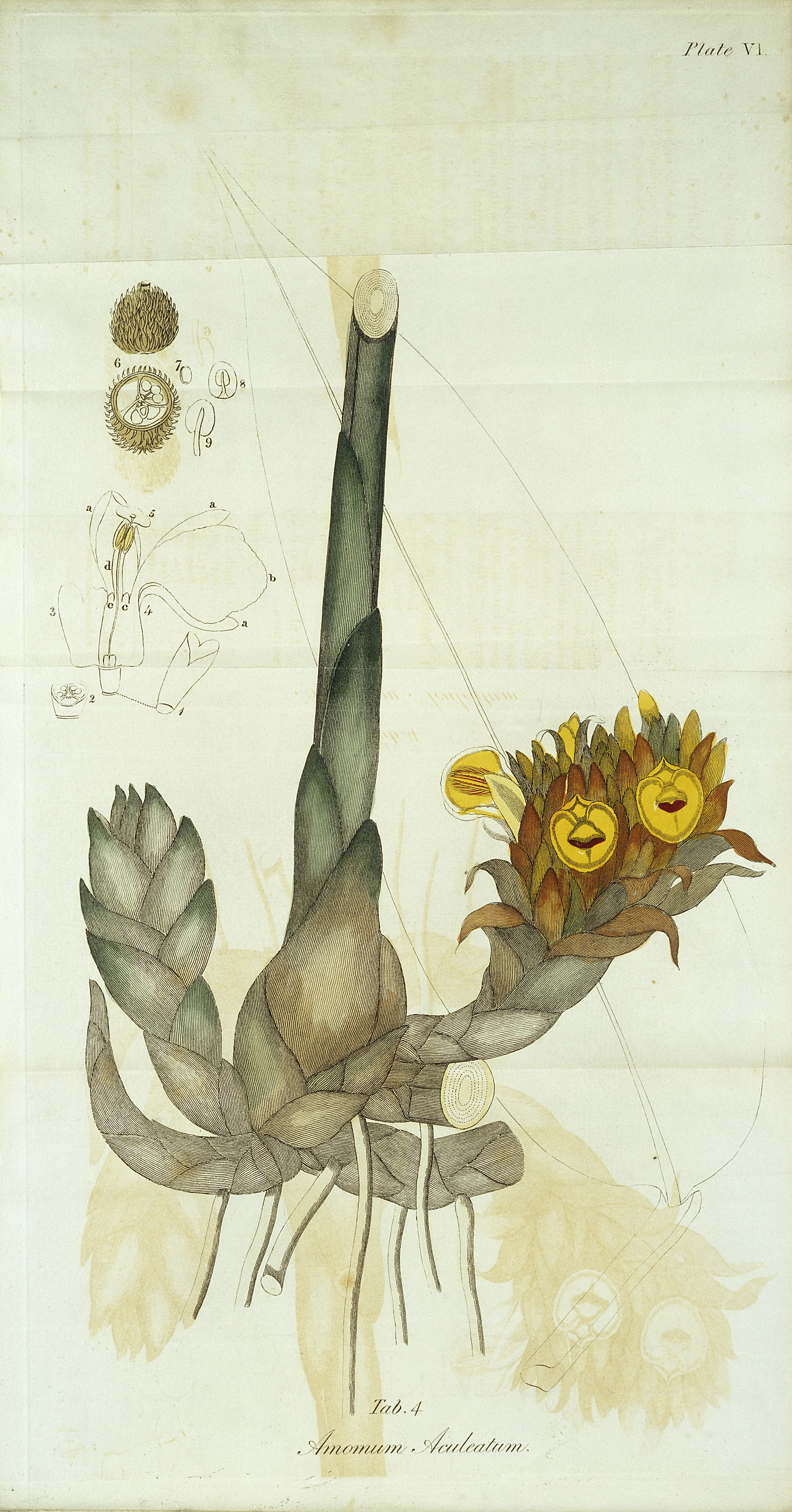 Amomum Aculeatum, Table 4. Rare Books Keywords: medicinal plants; amomum aculcatum; epb/22713/b; india.........................